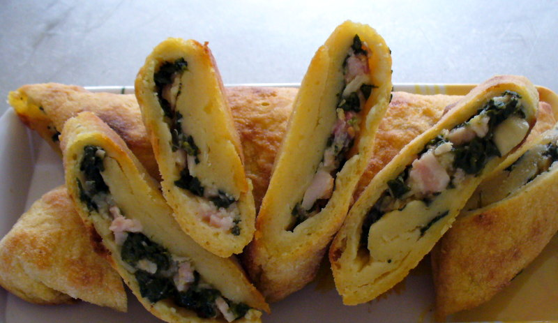 Meat strudel